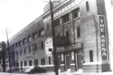 Mutual Street Arena, home of the Toronto Maple Leafs 1917-1931. Toronto, Ontario, Canada.